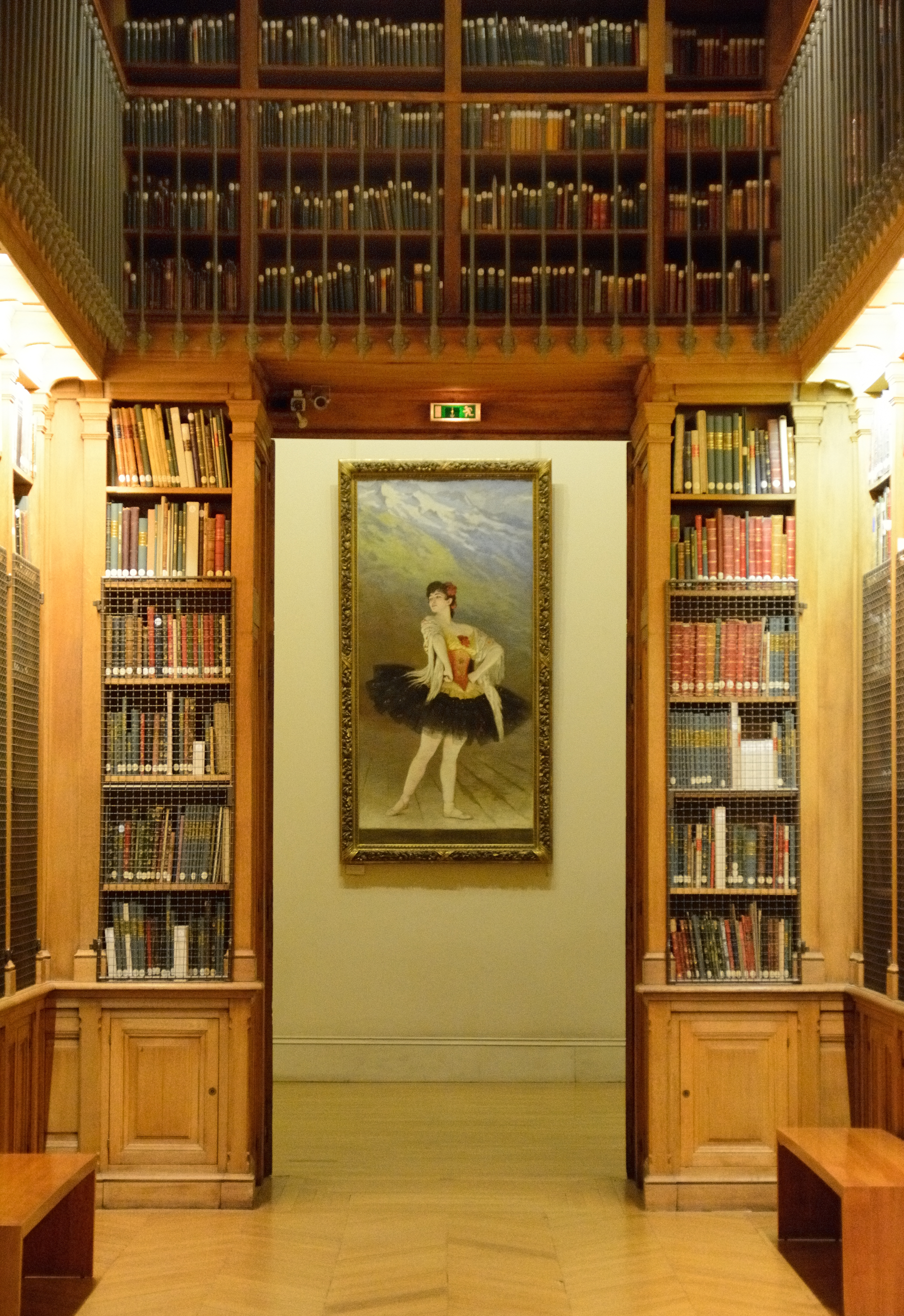 Bibliothèque-musée at Opéra Garnier, Paris. In the background painting of Édouard Debat-Ponsan Mademoiselle Sandrini in the part of Lilia